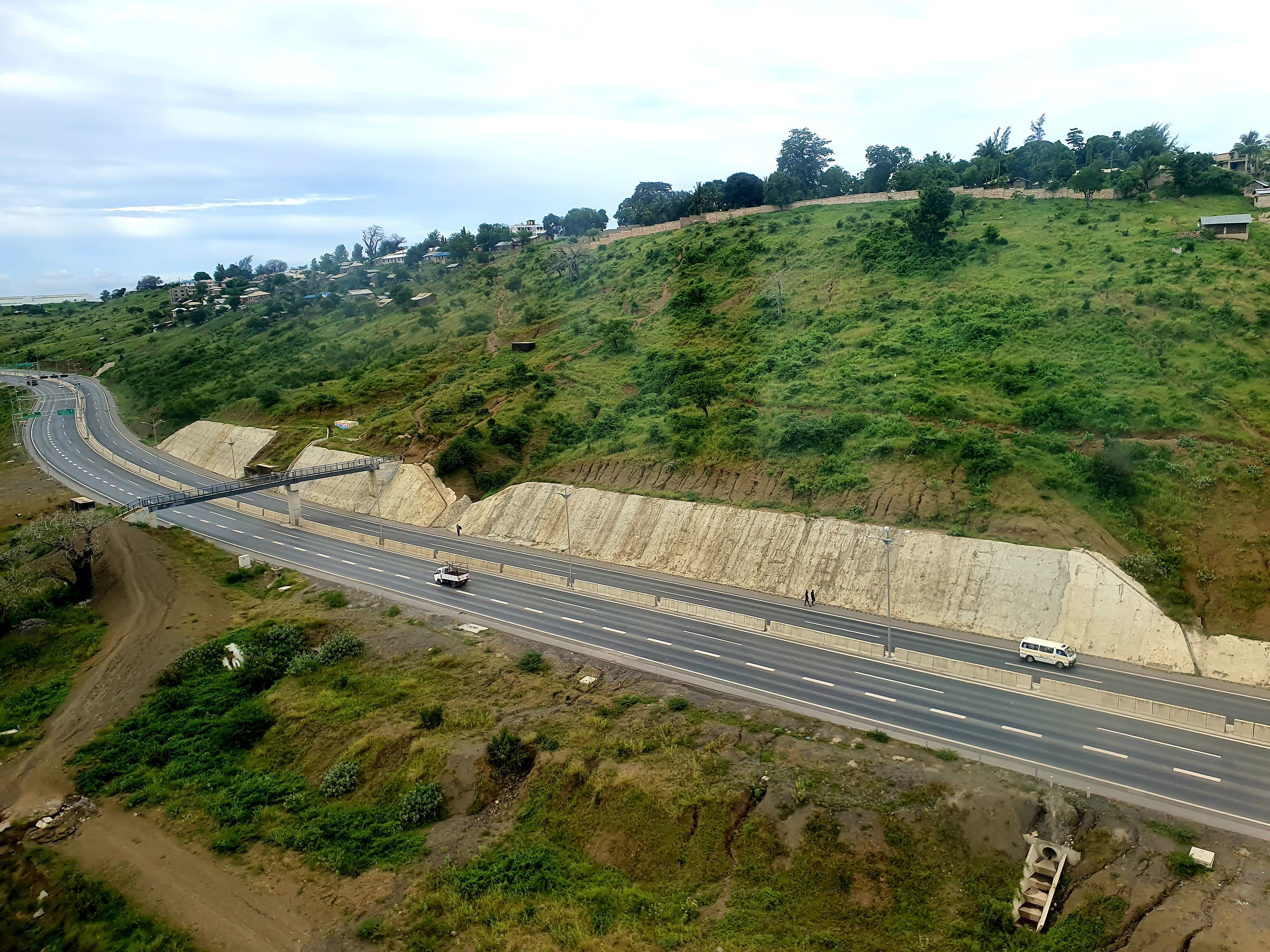 Highway view from the Standard Gauge Railway to Mombasa city This is an image with the theme "Africa on the Move or Transport" from: Kenya